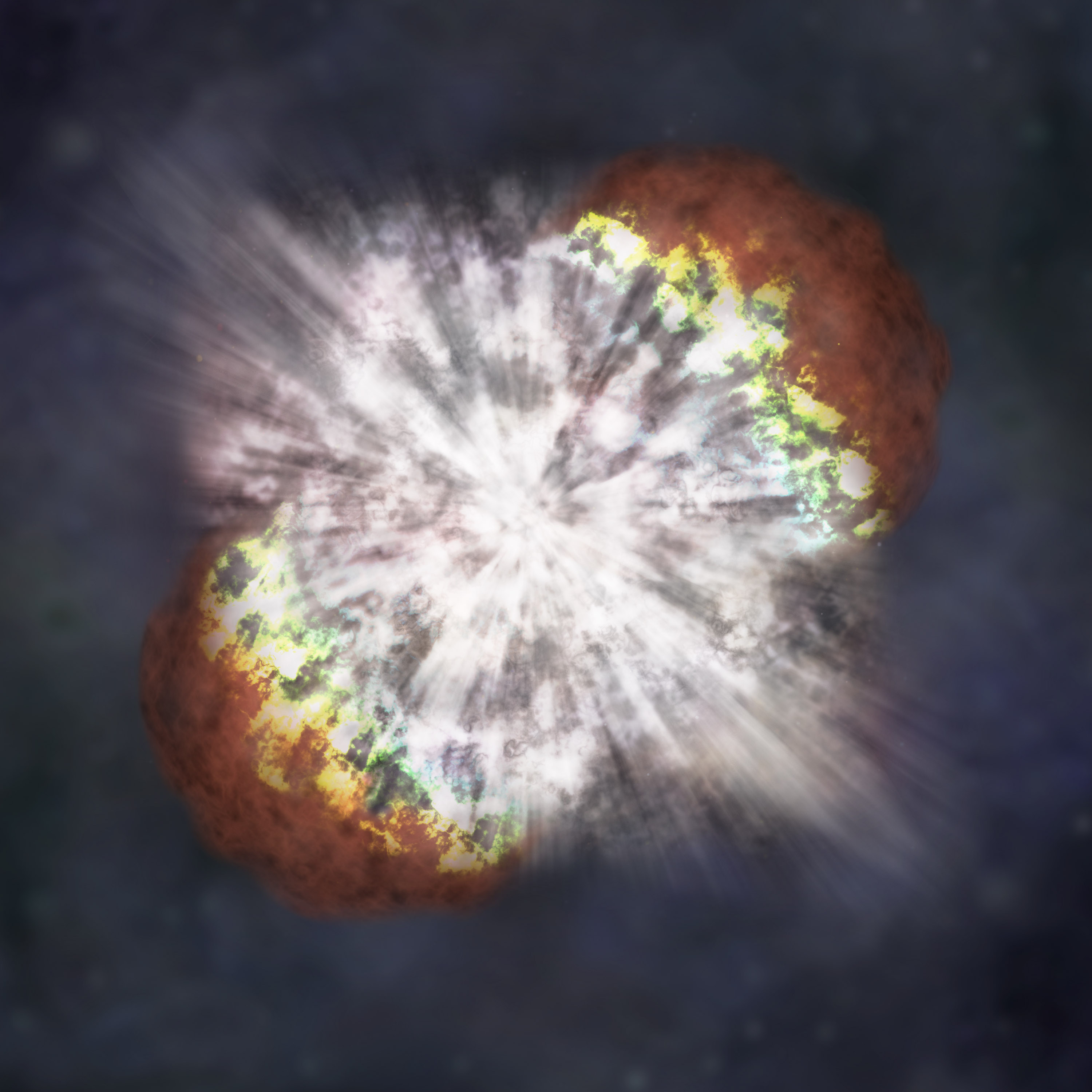 An artist's illustration that shows what SN 2006gy may have looked like if viewed at a close distance.